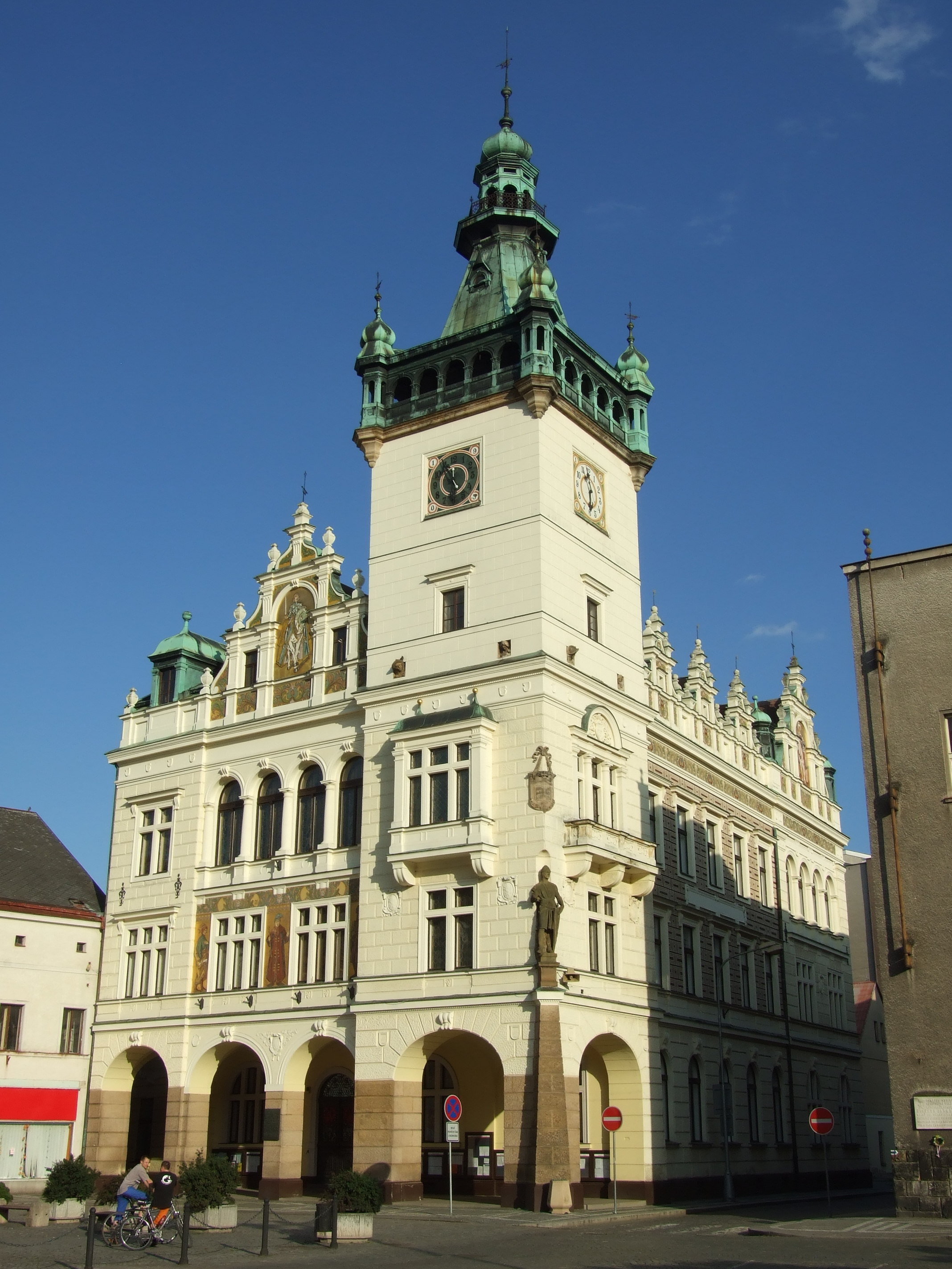 New townhall in Náchod